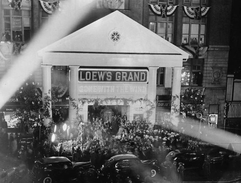 Photo of the premiere of Gone With the Wind at the Loew's Grand Theater in Atlanta, Georgia.